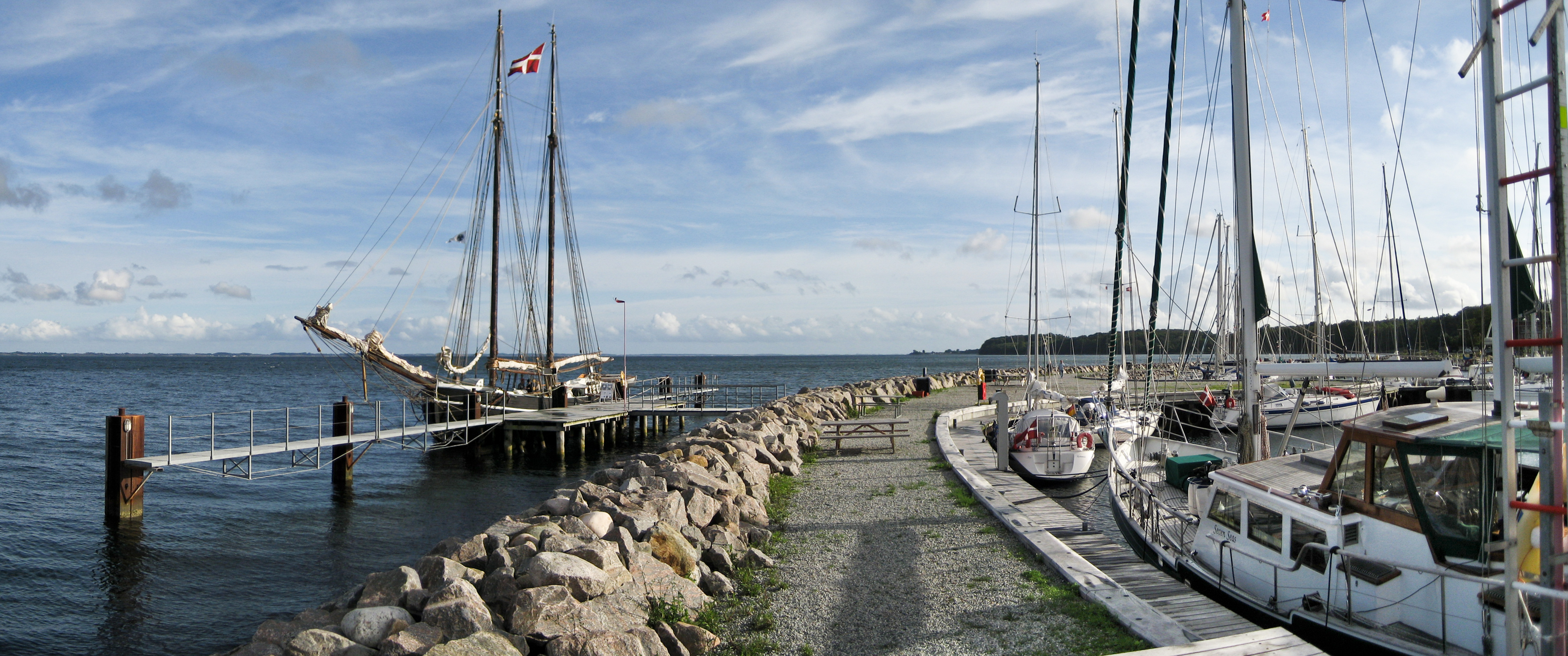 Lundeborg, marina, mole